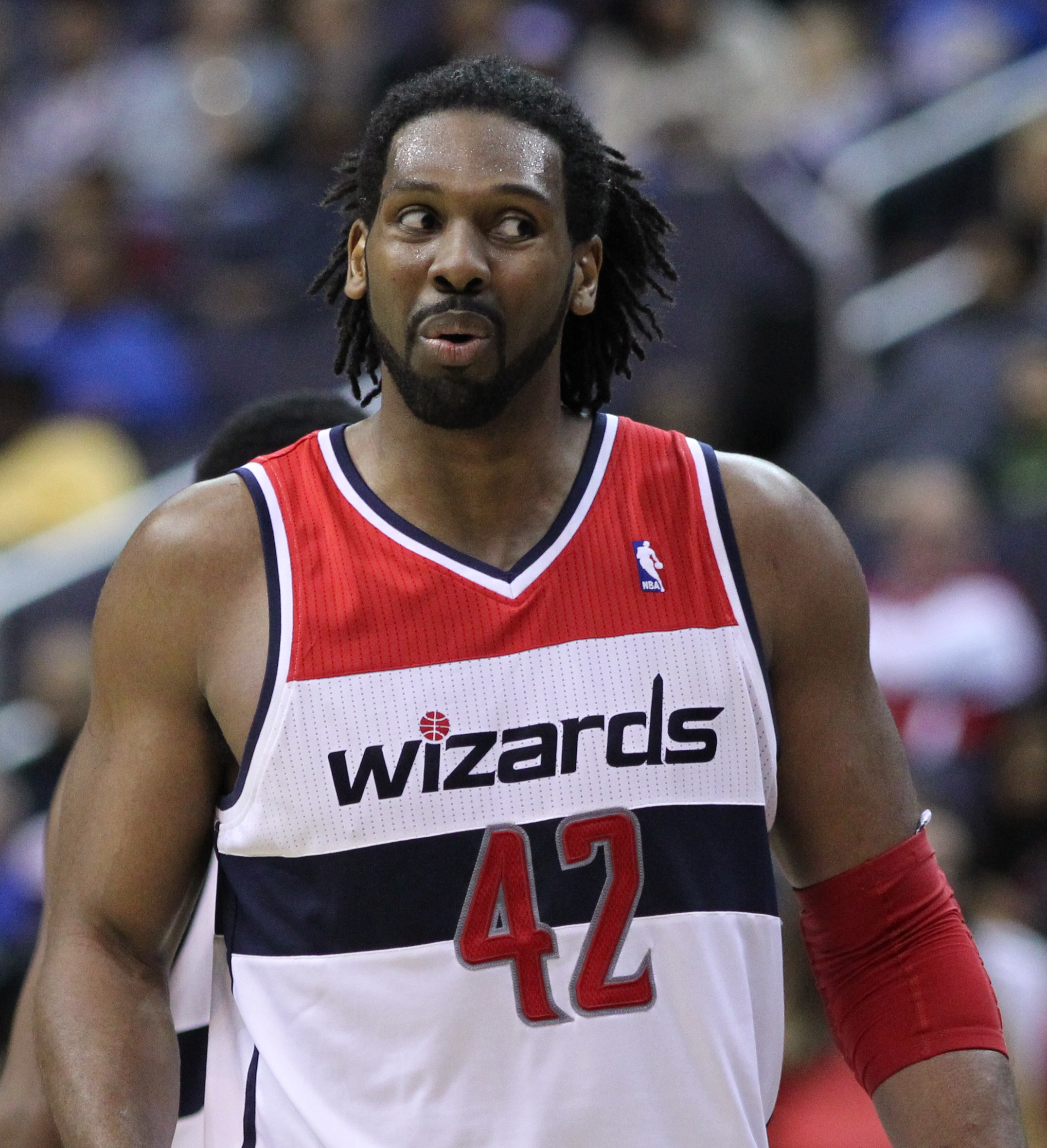 Hawks at Wizards March 24, 2012